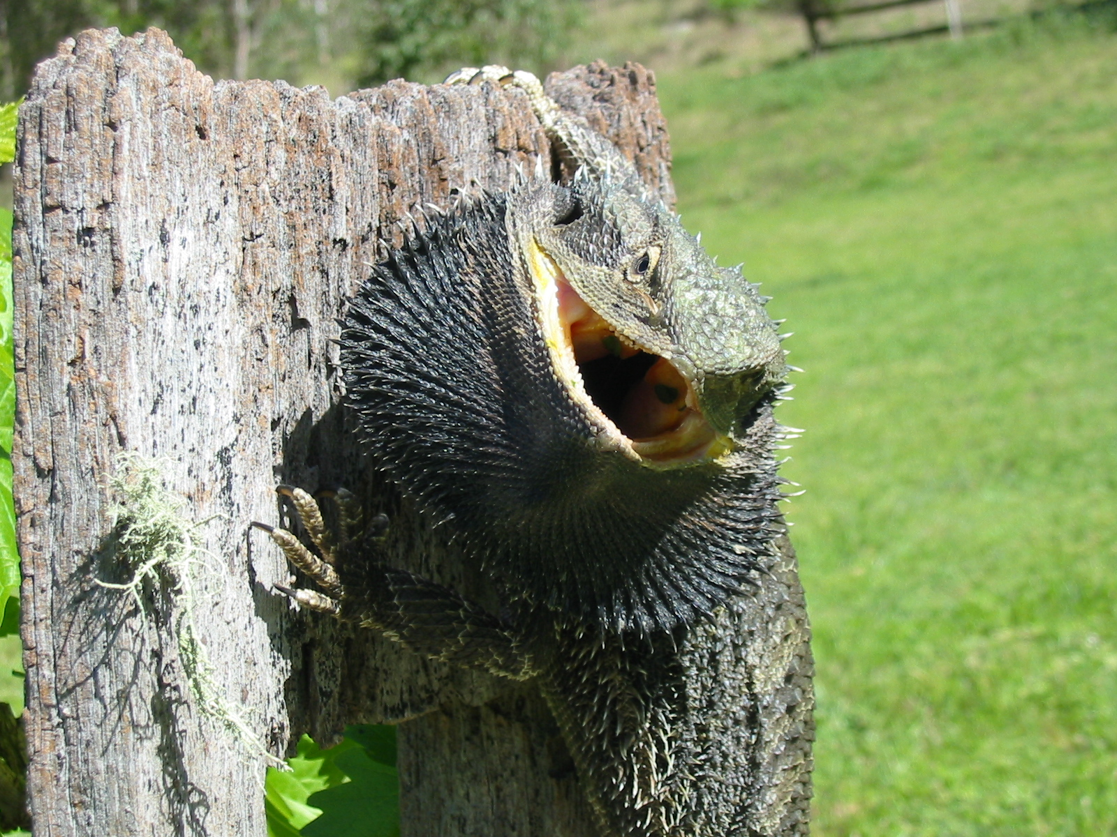 Bearded Dragon - Pogona barbata